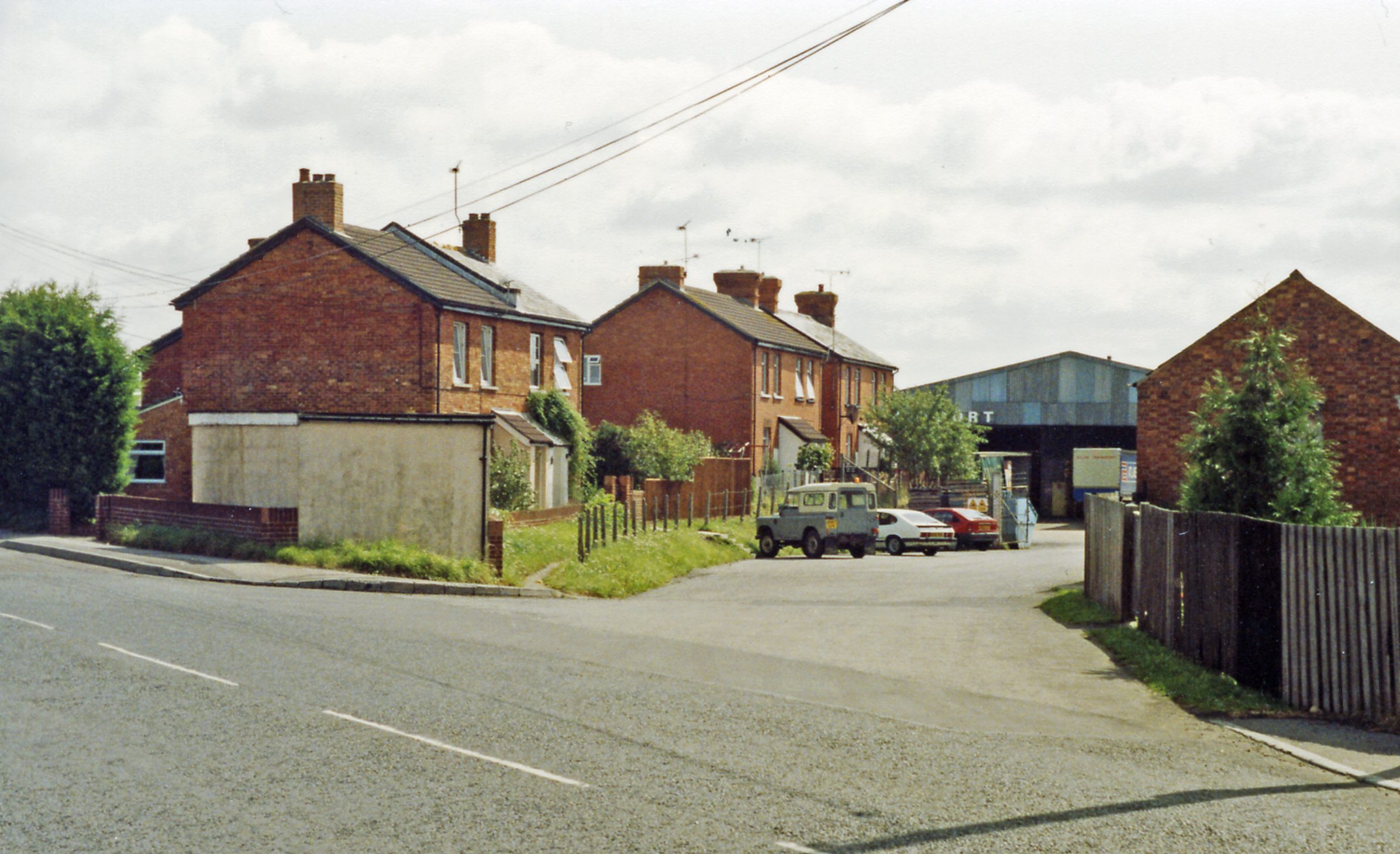 Site of Amesbury station, 1992. View eastward beside the (old) A303, towards Newton Tony and the triangular junctions with the ex-LSW London - Salisbury etc. main line near Porton: ex-LSW branch to Bulford and Bulford Camp; all closed to passengers 30/6/52, goods 4/3/63.